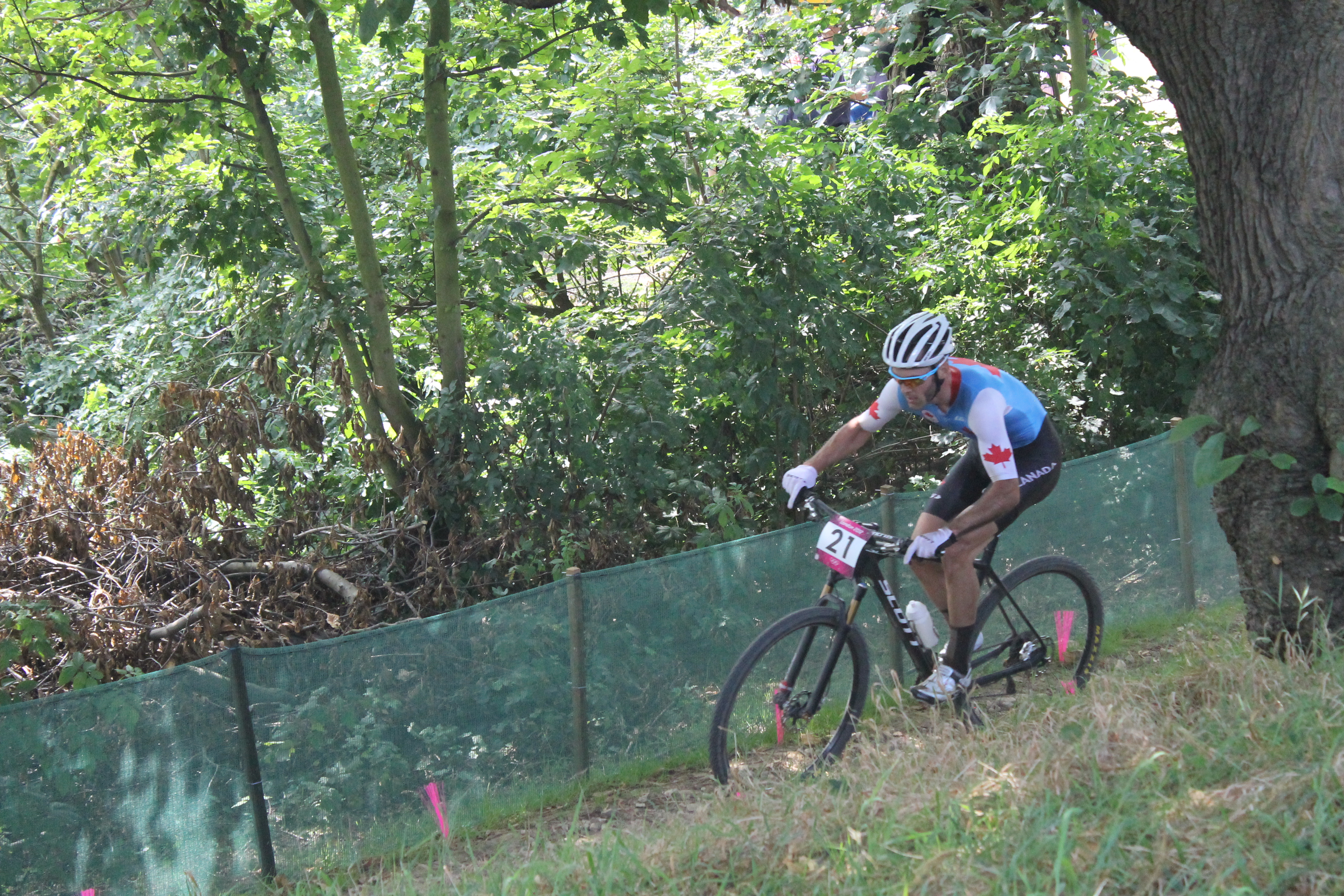 Cycling at the 2012 Summer Olympics – Men's cross-country Geoff Kabush (21) (CAN) IMG_4106